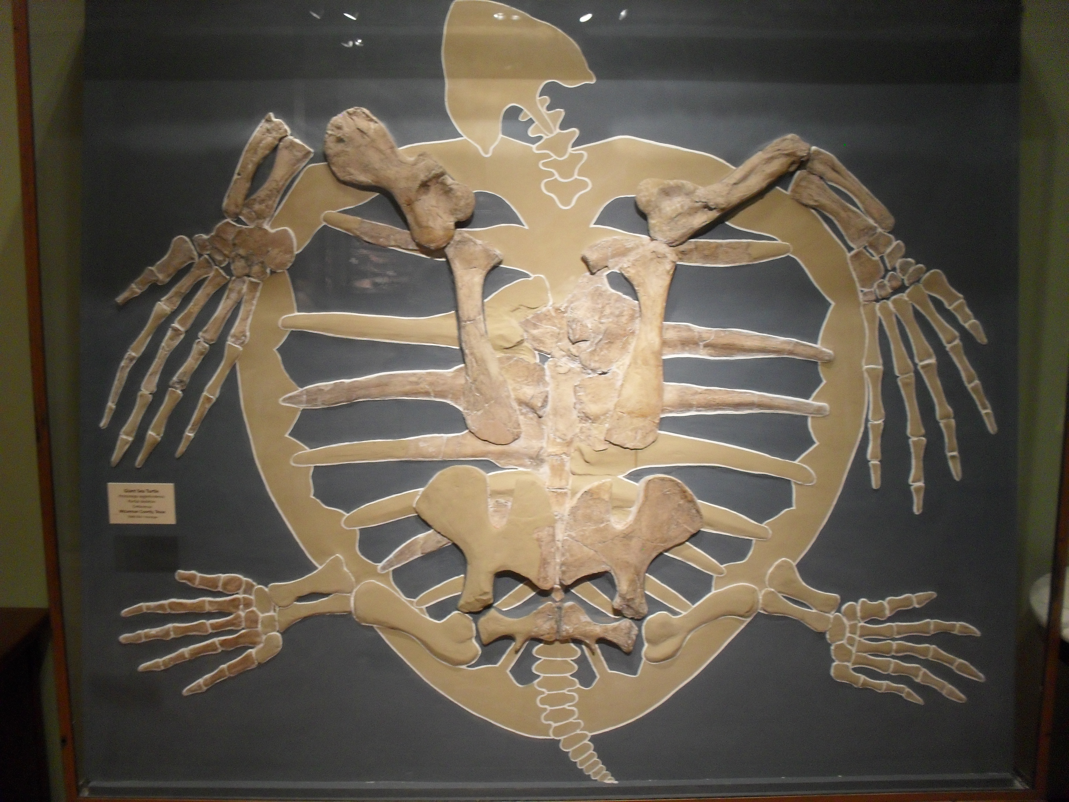 Partial skeleton of “Protostega” eaglefordensis holotype specimen TMM 924-1 from the McLennan County, Texas. Texas Memorial Museum.